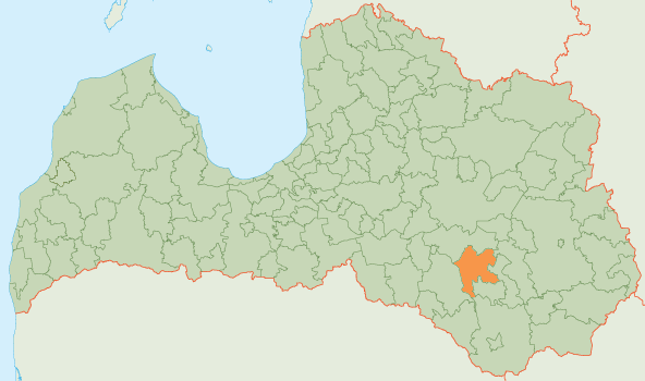 Map of Līvāni municipality, Latvia